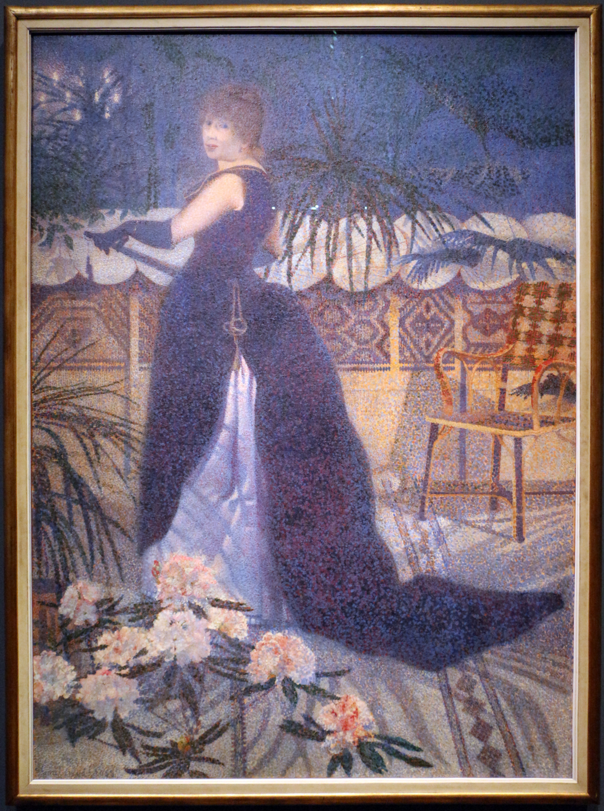 Paintings in Musée d'Orsay